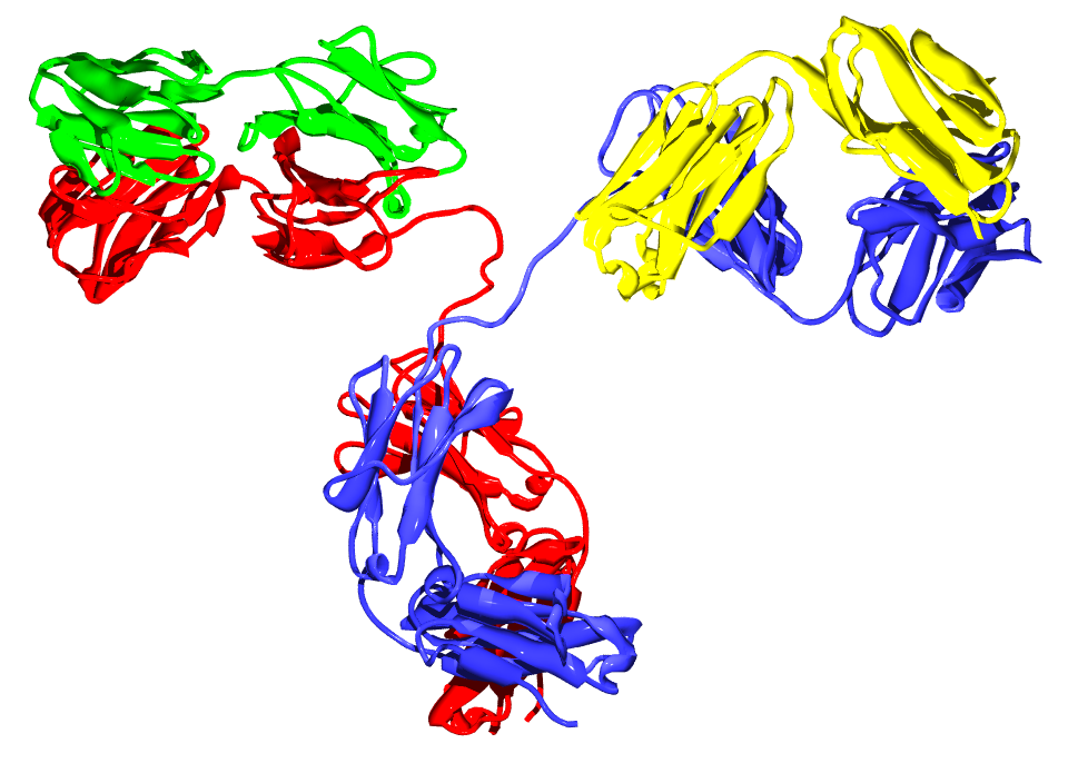 Structure of an IgG2 antibody. Created from PDB 1IGT, PMID 9048542.